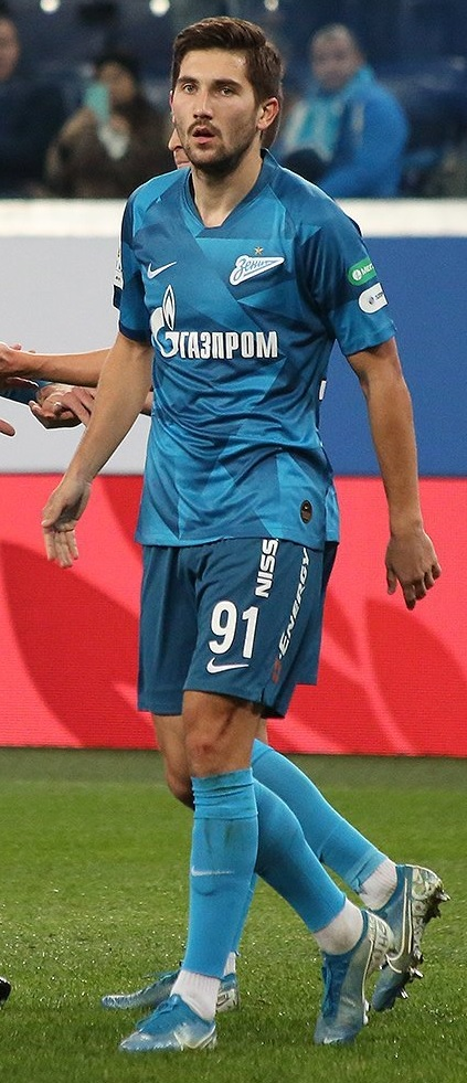 Aleksei Sutormin with FC Zenit Saint Petersburg in a Russian Cup game against FC Tom Tomsk.